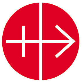 Imagem que representa a Fundação Pontifícia Ajuda à Igreja que Sofre em todo o mundo